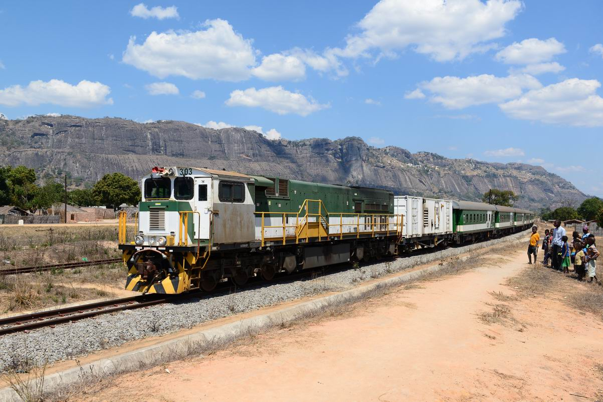 Passenger Train Cuamba - Nampula in August 2018 near Rente